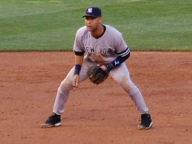 Derek Jeter at the New York Yankees vs. Colorado Rockies game on June 19, 2007.